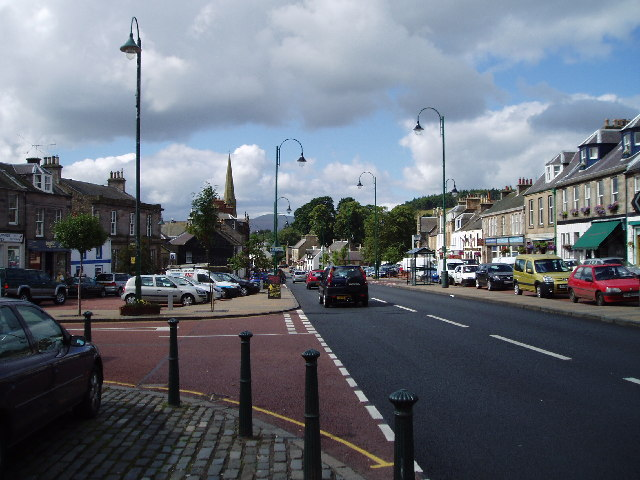 Biggar. View south west down the main street of this busy and delightful town.